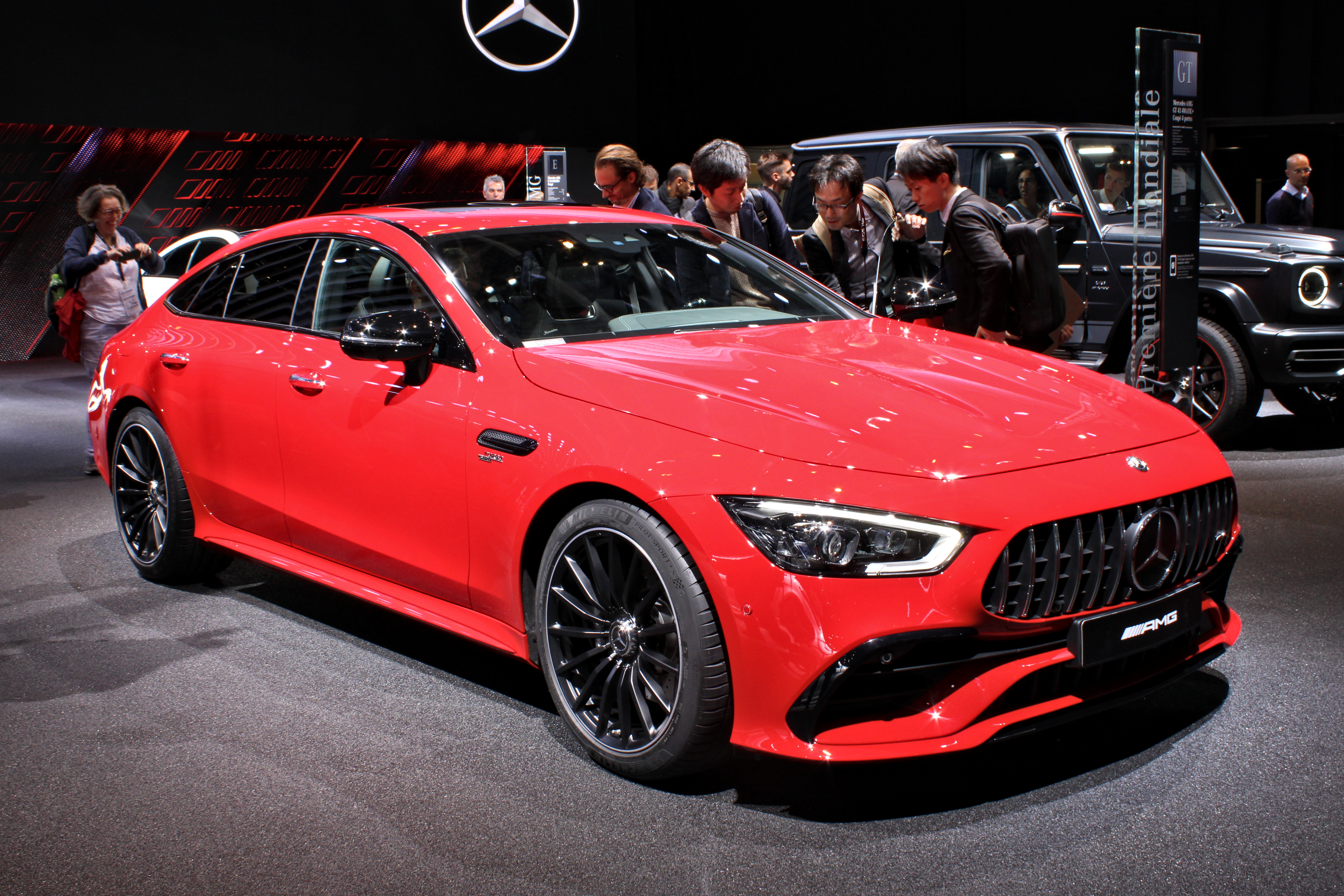 Mercedes-AMG GT 43 4Matic+ Coupe 4-doors at Paris Motor Show 2018